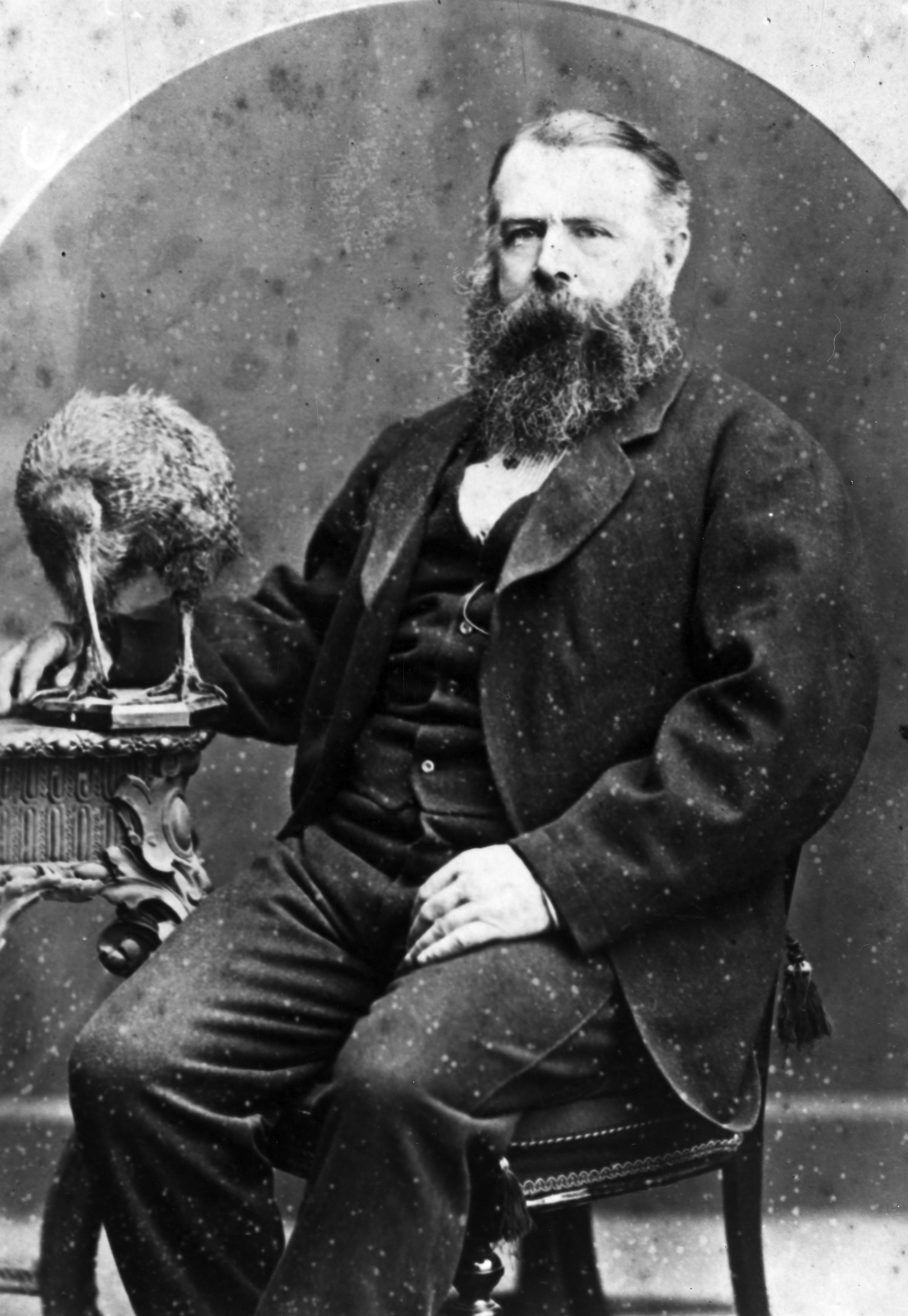 A portrait of Thomas Henry Potts. He sits alongide a stuffed kiwi. Photograph taken circa 1875 by an unidentified photographer.